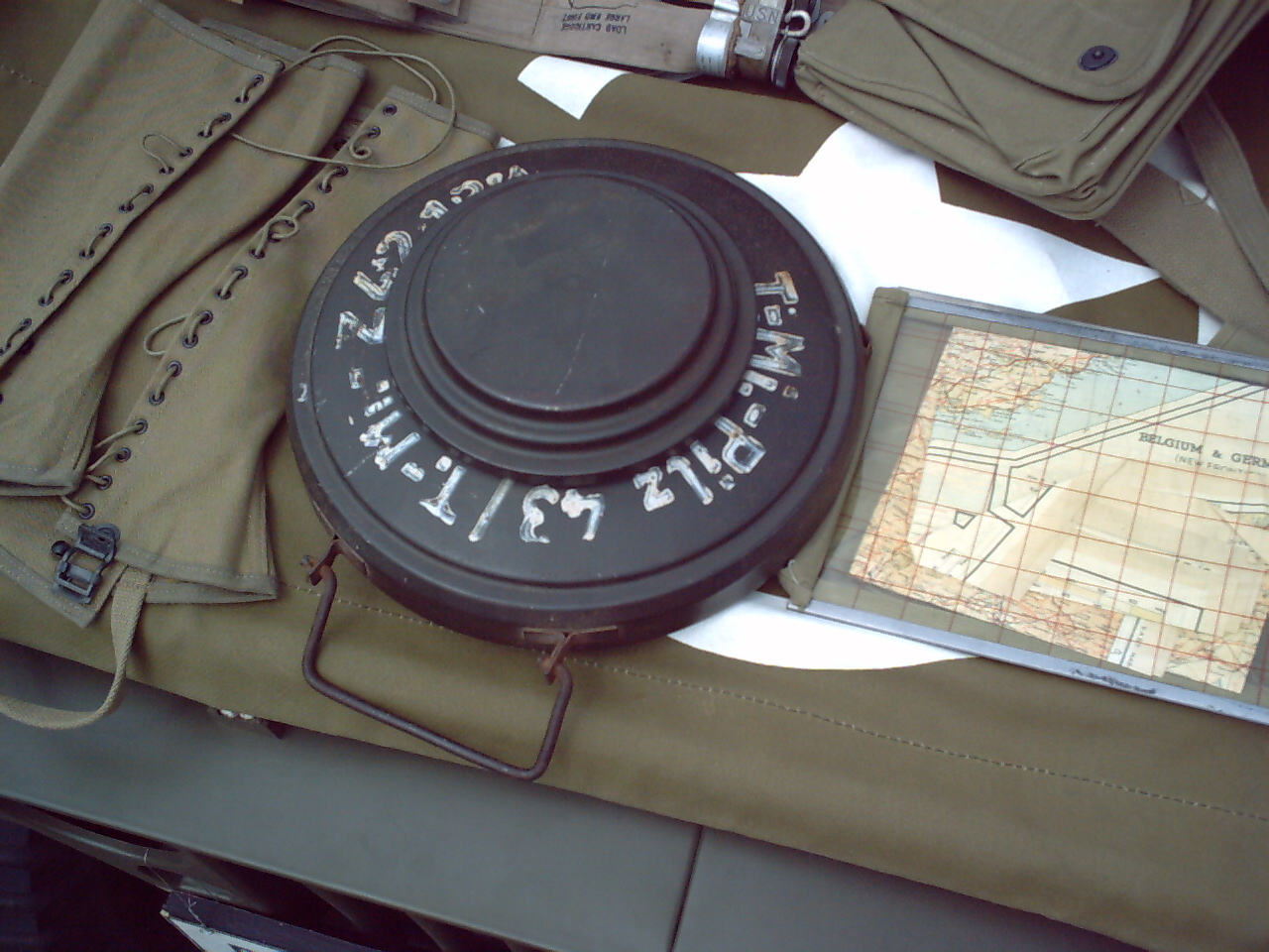 Tellermine 43, a WW II German anti-tank mine, at dedication of Minnesota WW II Veterans Memorial, June 9, 2007.